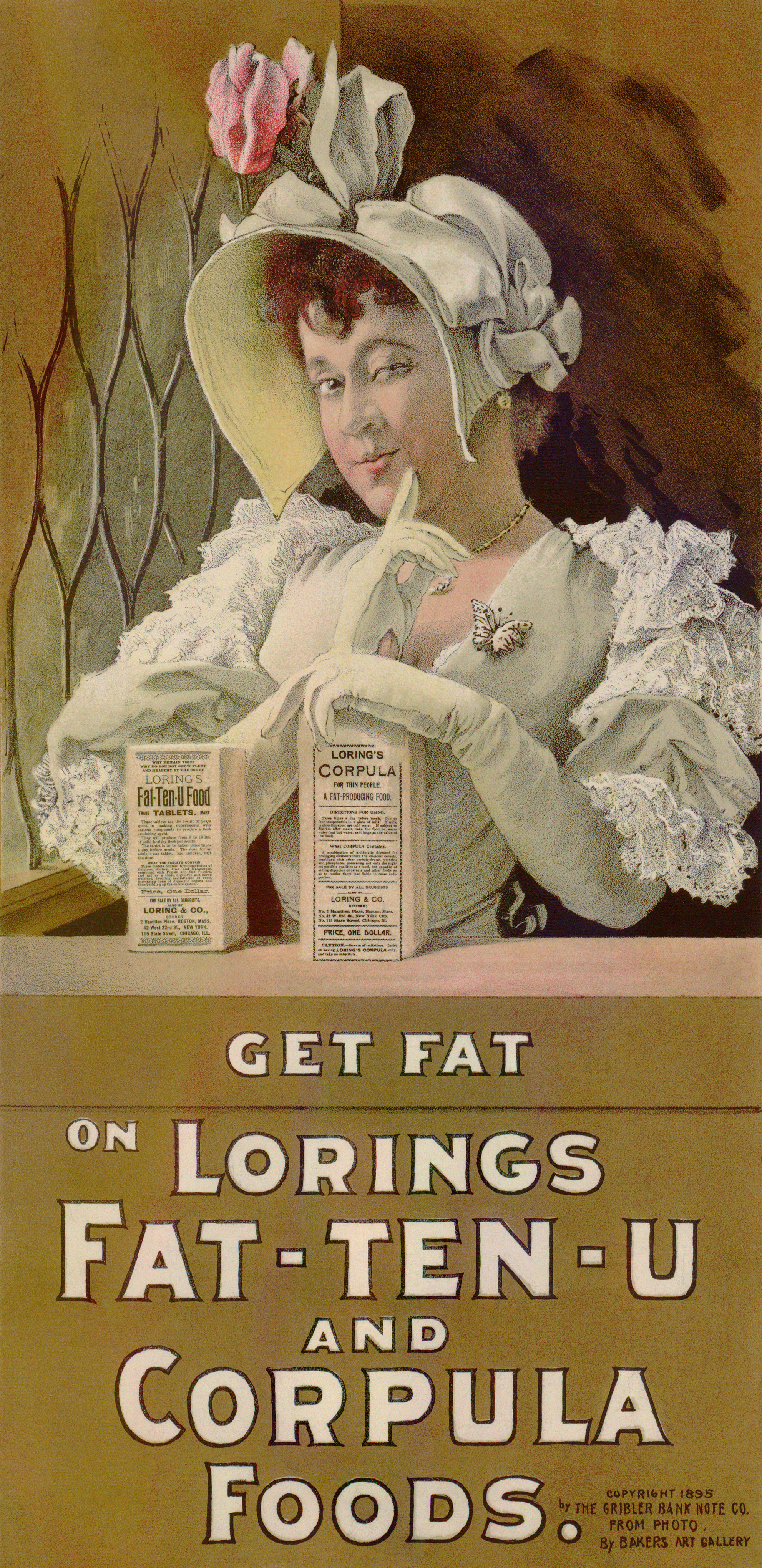 "Get fat on Lorings Fat-ten-u and corpula foods"; "Advertisement showing young woman with package of Loring's Fat-Ten-U food tablets and package of Loring's Corpula, a fat-producting food." Color lithograph